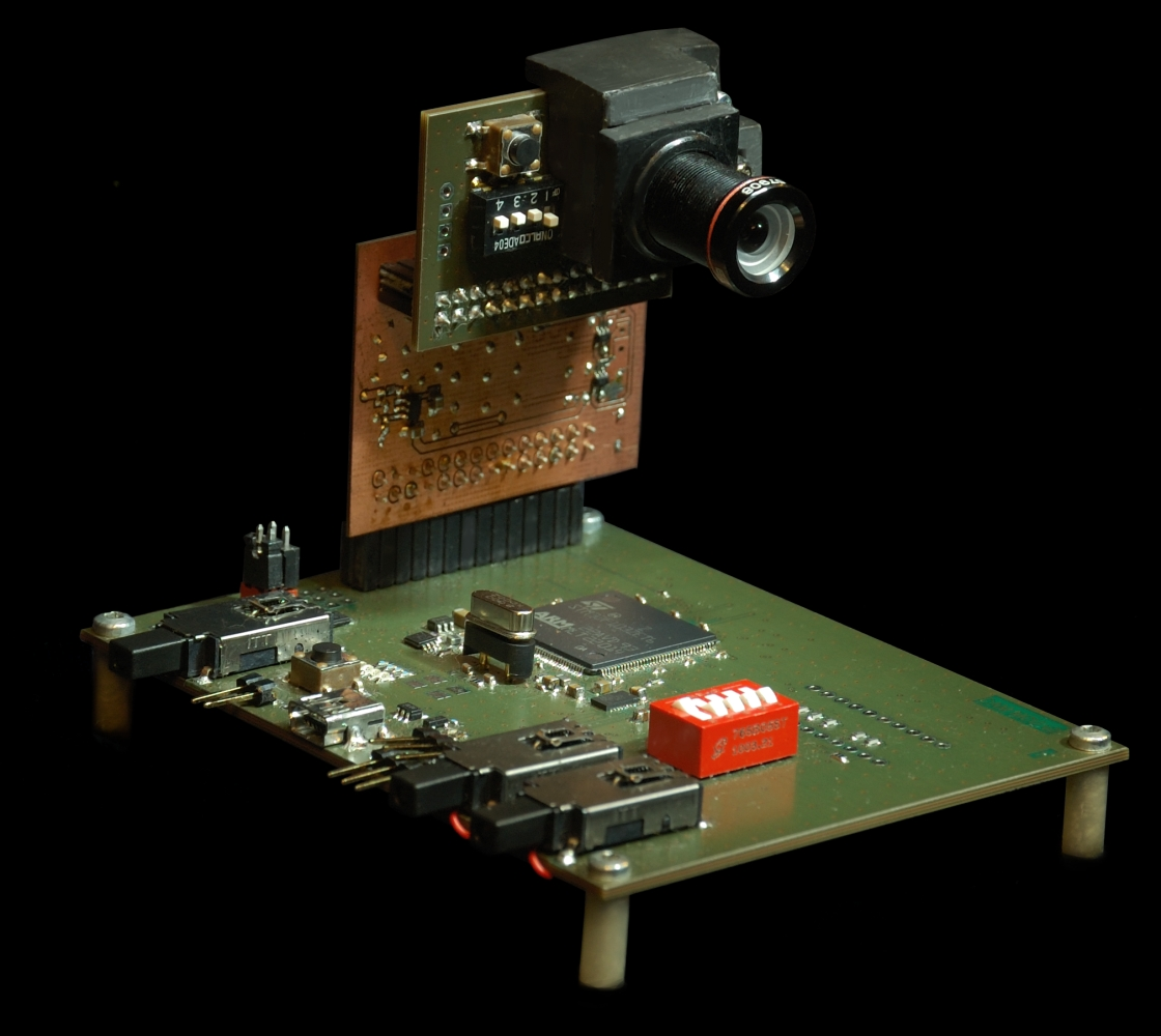 The prototype of ESTCube-1 camera.